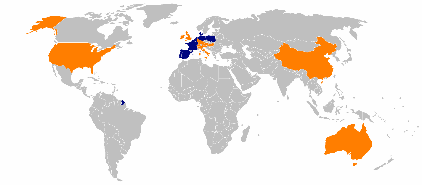 Aldi stores worldwide. Aldi Nord is in blue, Aldi Süd is in orange.